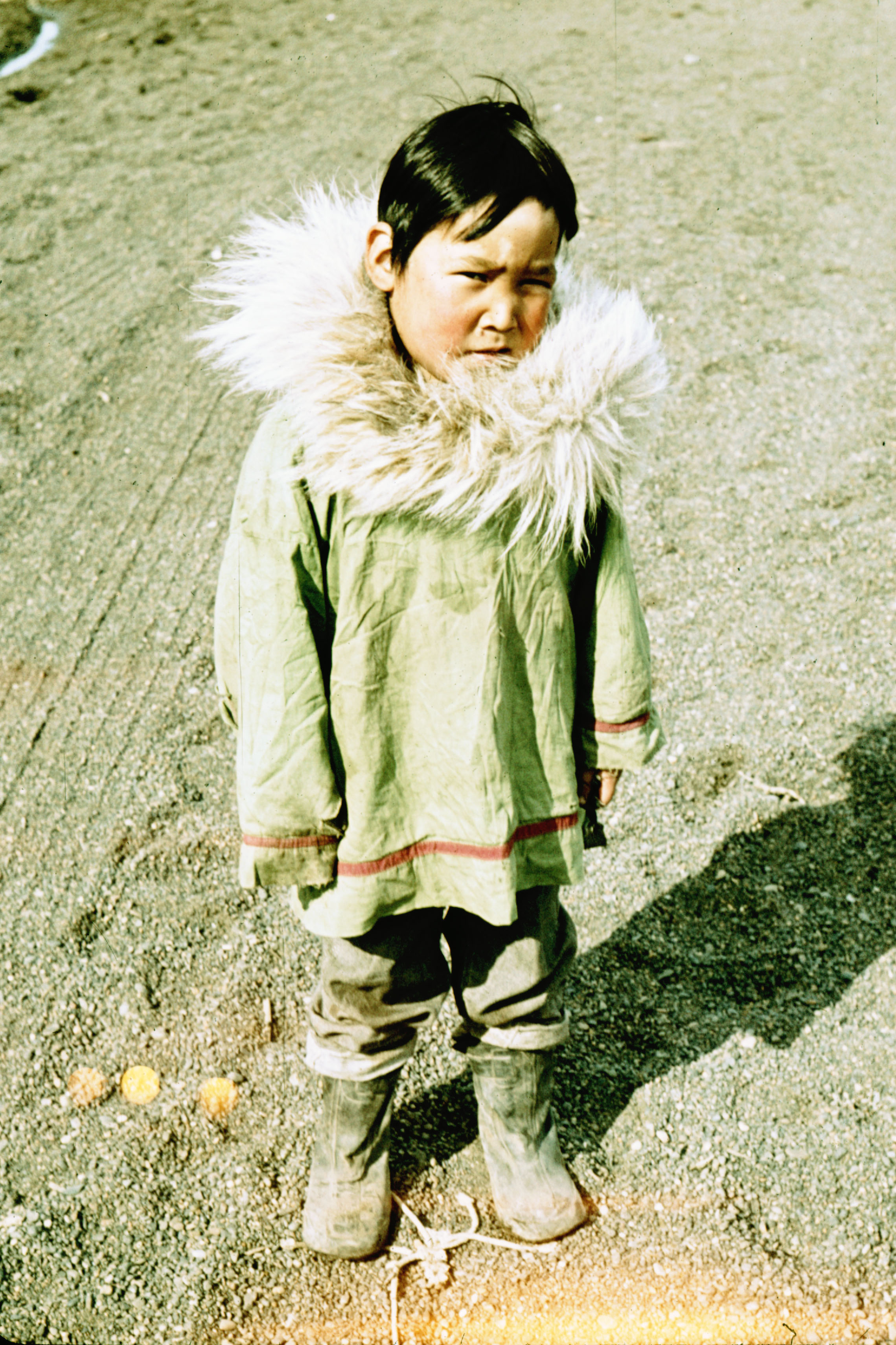 Eskimo child in typical outfit; Point Barrow, Alaska.